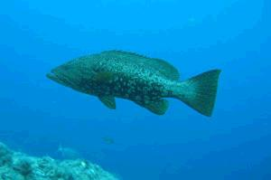 Picture of Mycteroperca rubra